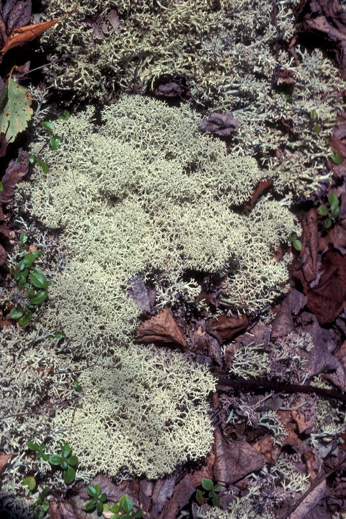 Reindeer Moss (Cladonia rangiferina), Innoko National Wildlife Refuge See talk page for further information